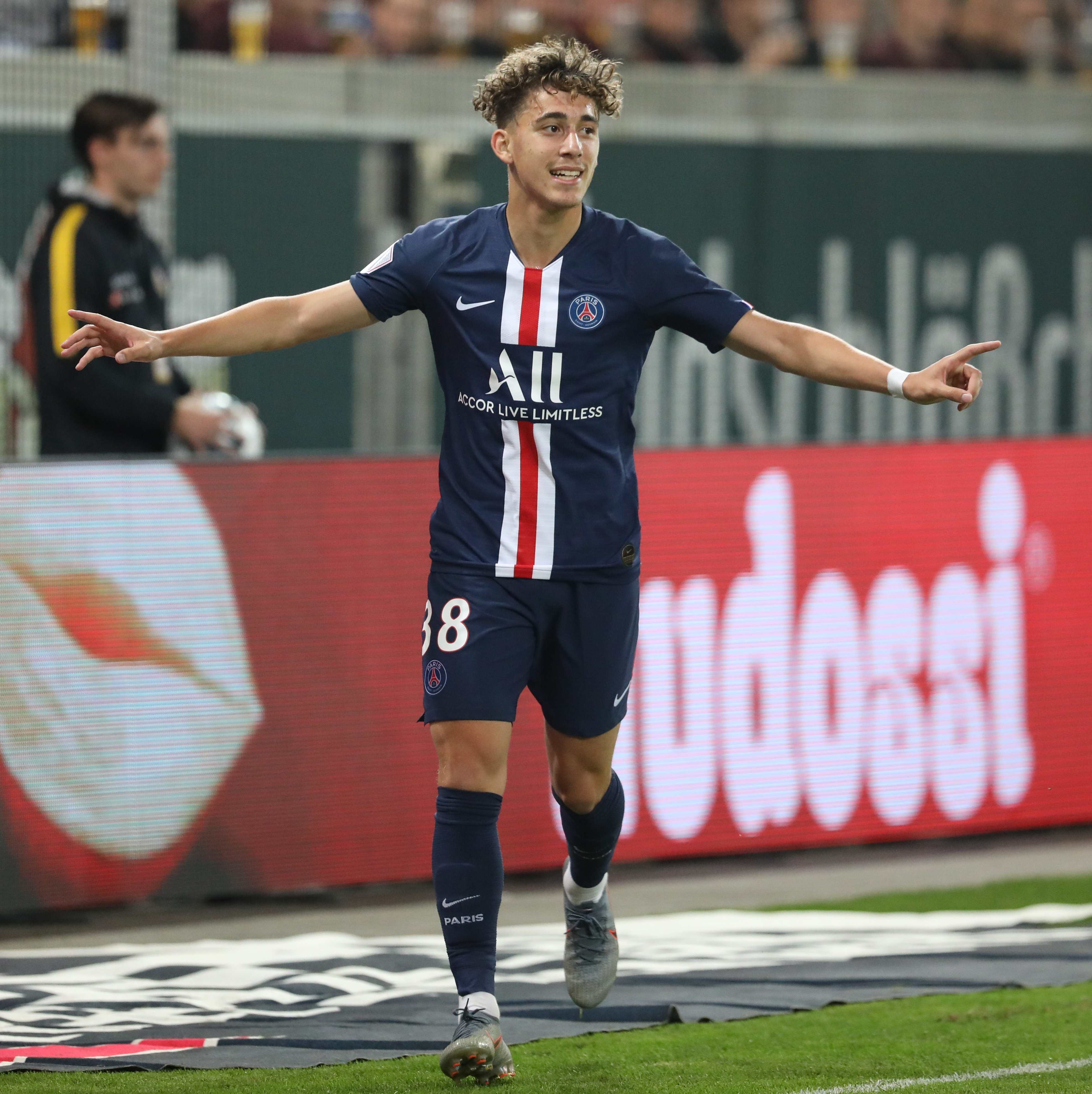 Test game, 17th July 2019: SG Dynamo Dresden vs. Paris Saint-Germain 1:6 (0:3)